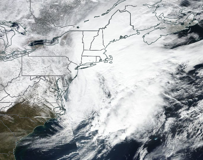 Image of the blizzard affecting the New England states on the evening of 9 February 2017